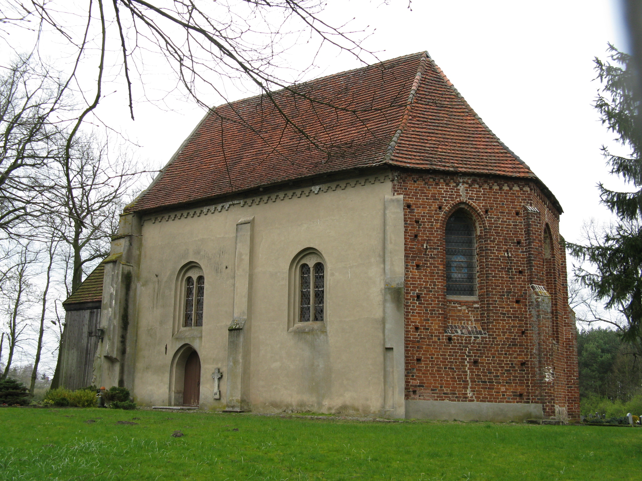 Church in Klinken, district Ludwigslust-Parchim, Mecklenburg-Vorpommern, Germany